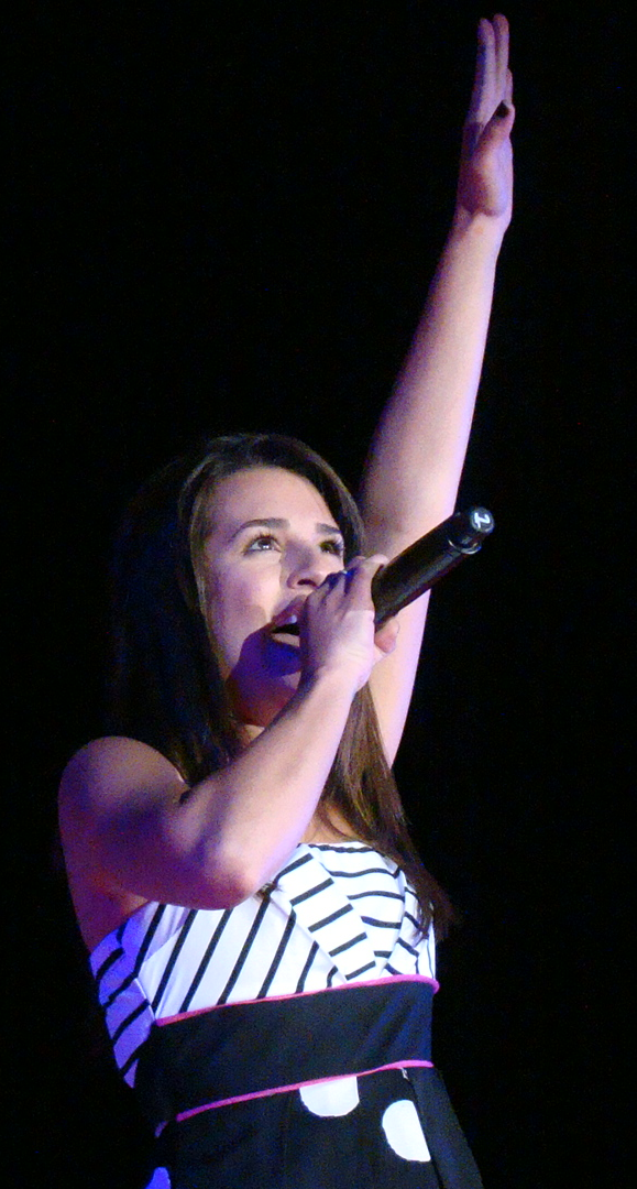 Lea Michele as Rachel Berry, performing "Firework" on the Glee Live! In Concert! tour.